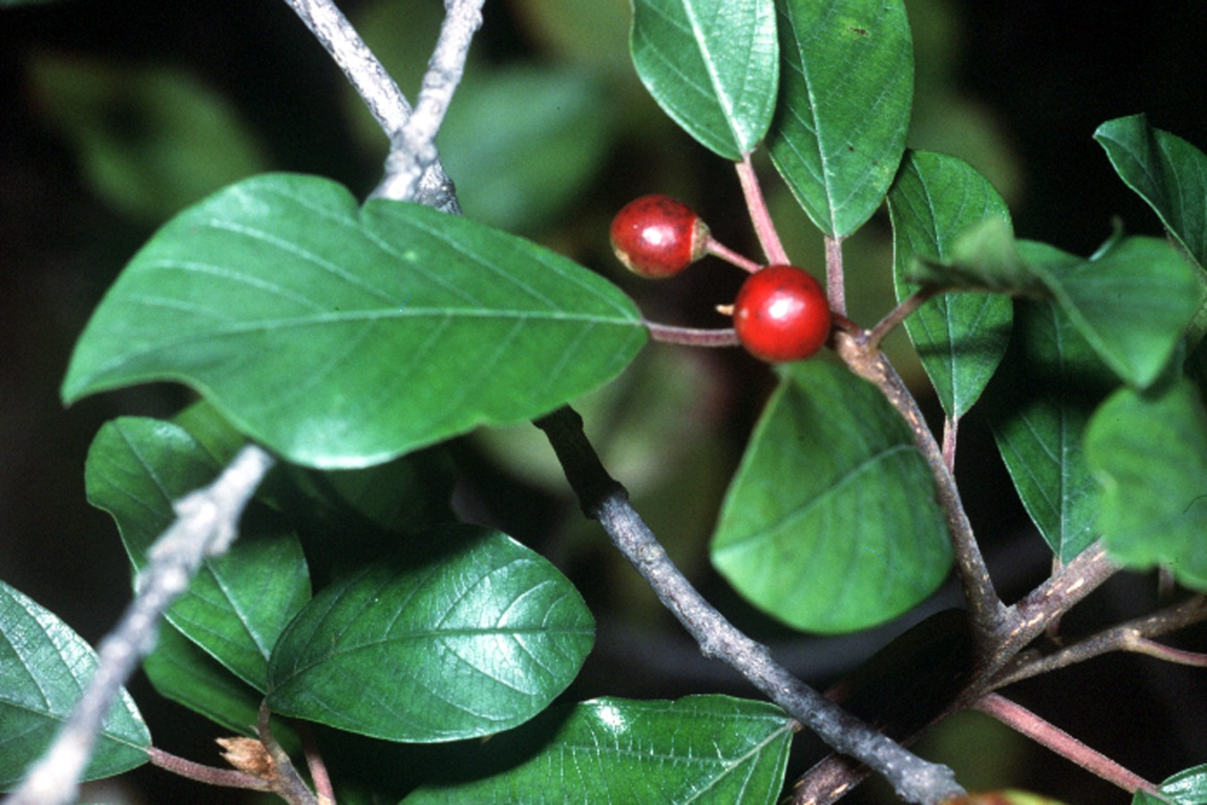 Midwest wetland flora: Field office illustrated guide to plant species. Midwest National Technical Center, Lincoln, NE. Species Frangula alnus Family Rhamnaceae 1989.